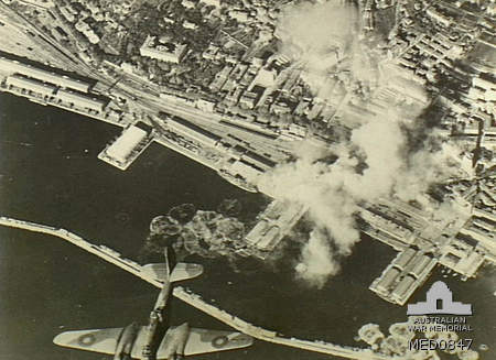 Rijeka under aerial bombardment by Royal Air Force planes, 1944. Fiume (Rijeka), Yugoslavia. c. 1944. One of the RAF Baltimore aircraft over the harbour during the air attack. Bombs can be seen exploding on the port rail facilities and in the water nearby. South African Air Force and RAAF Baltimore aircraft of the Desert Air Force attacked shipping in the Adriatic harbour, scoring hits on a 3,000 ton ship, another vessel and demolishing warehouses.